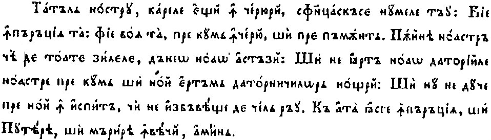 1850s Romanian text (Lord's Prayer), written with the Cyrillic script Transcription (Romanian Cyrillic alphabet): Та́тъль но́стрꙋ, ка́рєлє є́щй ꙟ чє́рюрй, сфн҃ца́скъсє нꙋ́мєлє тъꙋ: Вiє ꙟпръръцiѧ [sic] та̀: фiє во́ѧ та̀, прє кꙋ́мь ꙟ чє́рю, шѝ прє пъмѫ́нть. Пѫ́йнѣ но́астръ чѣ̀ дє тоатє зи́лєлє, дънєѡ но́аѡ а́стъзй. Шѝ нє ꙗ́ртъ но́аѡ даторíйлє но́астрє прє кꙋ́мь шѝ но́й є́ртъмь дато́рничилѡрь но́щрй: Шѝ нꙋ нє дꙋ́чє прє но́й ꙟ испи́тъ, чѝ нє избъвѣ́щє дє чє́ль ръꙋ. Къ ата̀ ꙗстє ꙟпъръцiѧ, шѝ Пꙋтѣ́рѣ, шѝ мъри́рѣ ꙟ вѣ́чй, ами́нь. Transcription in Latin alphabet (Romanian alphabet): Tatăl nostru, carele ești în ceriuri, sfințascăse numele tău: Vie înprărățiia [sic] ta: Fie voia ta, pre cum în ceriu, și pre pământ. Pâinea noastră cea de toate zilele, dăneo noao astăzi: Și ne iartă noao datoriile noastre pre cum și noi ertăm datornicilor noștri: Și nu ne duce pre noi în ispită, ci ne izbăveaște de cel rău. Că ata iaste înpărățiia, și Putearea, și mărirea în veaci, amin. Note The original has a misprint: the first word of the second line is spelled "ꙟпръръцiѧ" (înprărățiia) instead of "ꙟпъръцiѧ" (înpărățiia).